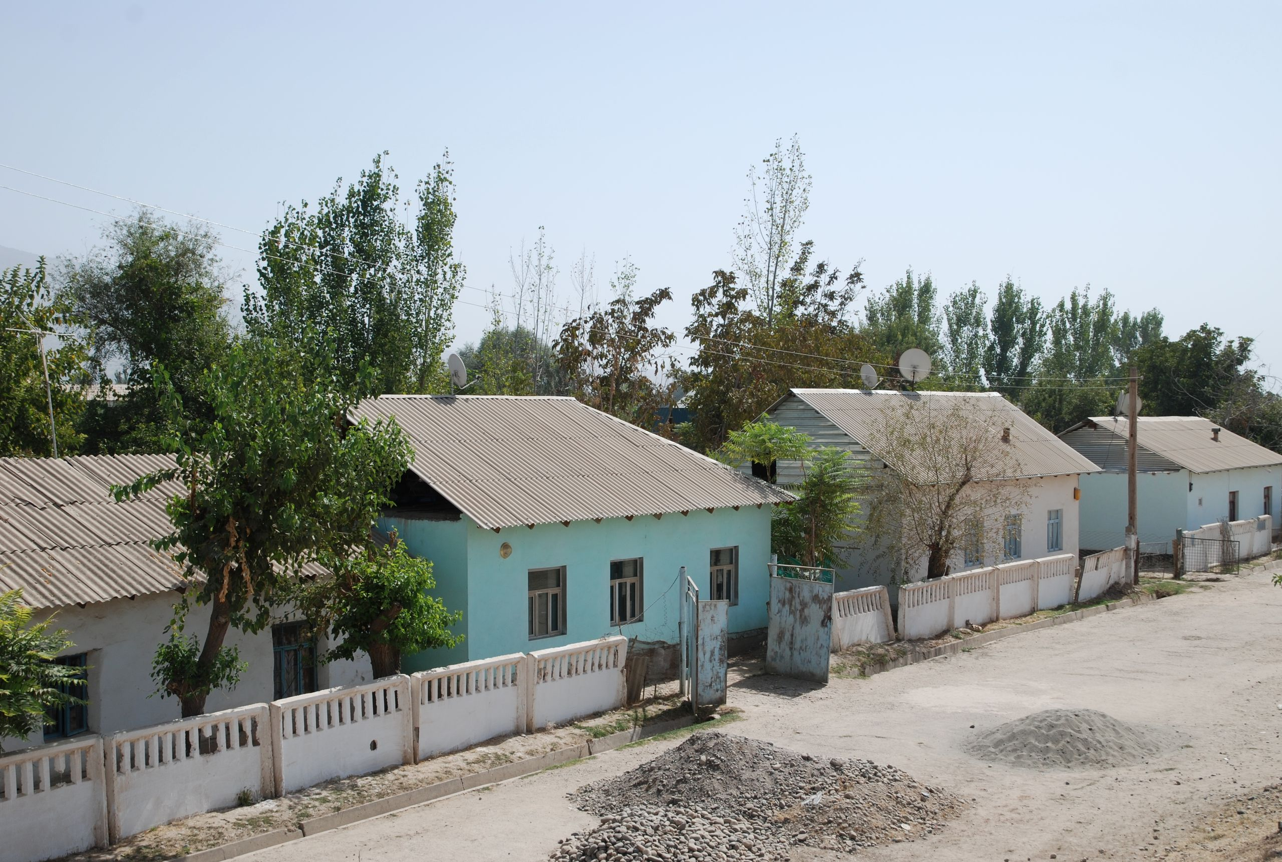 Khurbon Shahid, village, opposite Hulbuk citadel